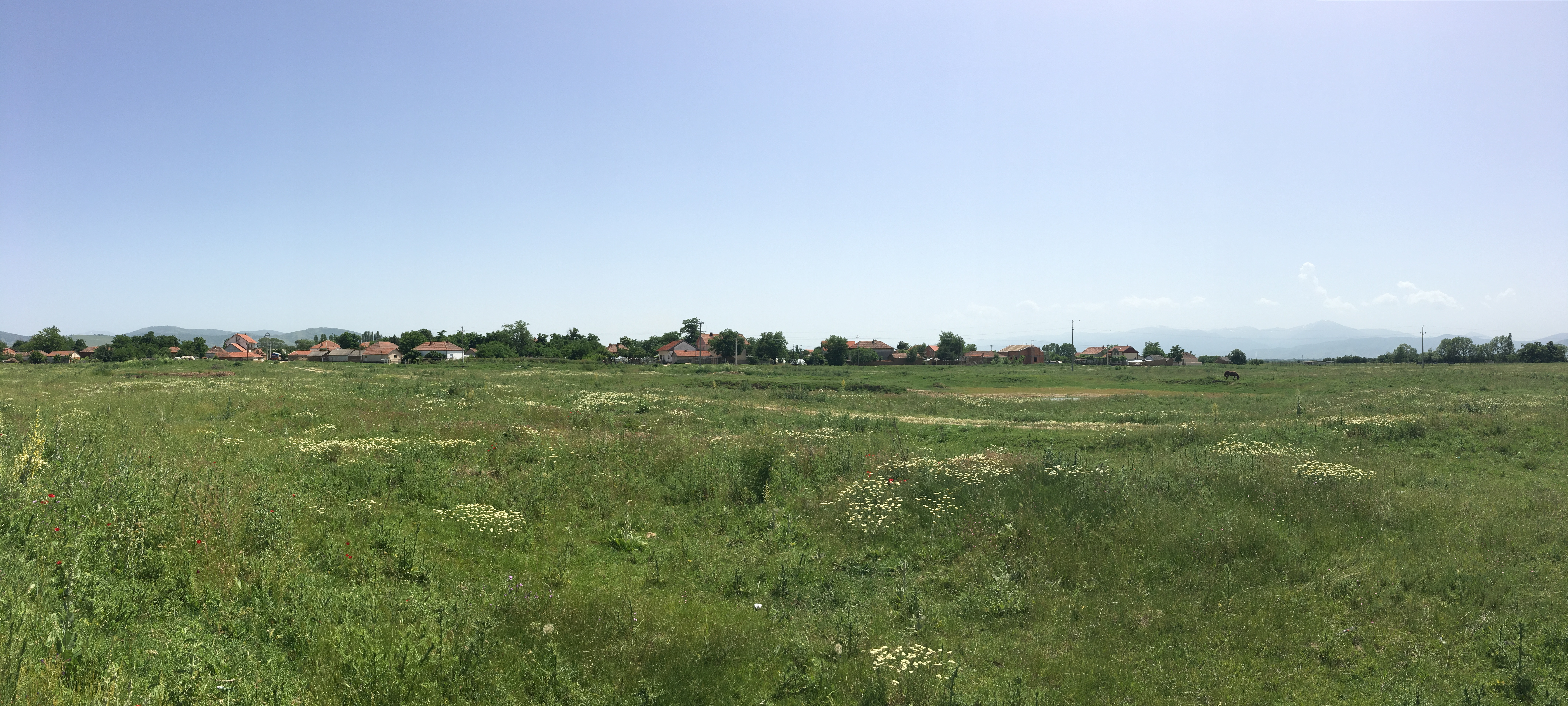 A panoramic view of the village of Dobruševo